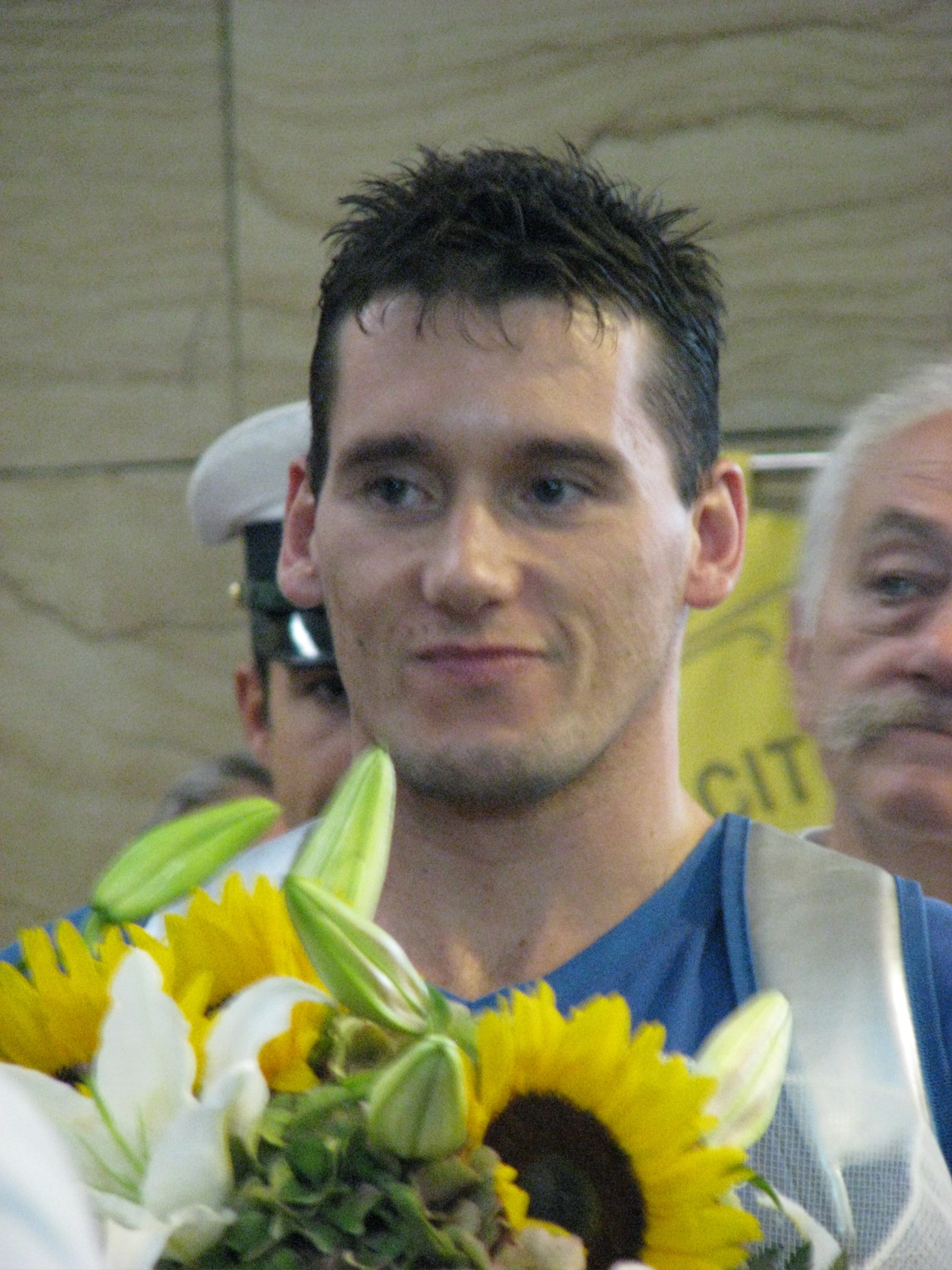 Gymnast Igor Cassina welcomed at Malpensa airport back from Beijing Olympic Games